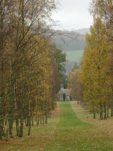 The chapel at Dawyck.